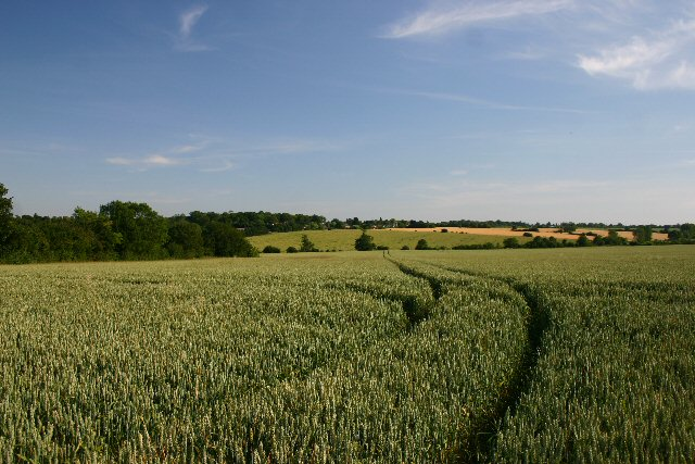 Fields by Brands Lane. Brands Lane forms the boundary between the parishes of Bradfield St Andrew and Hawstead. This view looks south into the former parish.